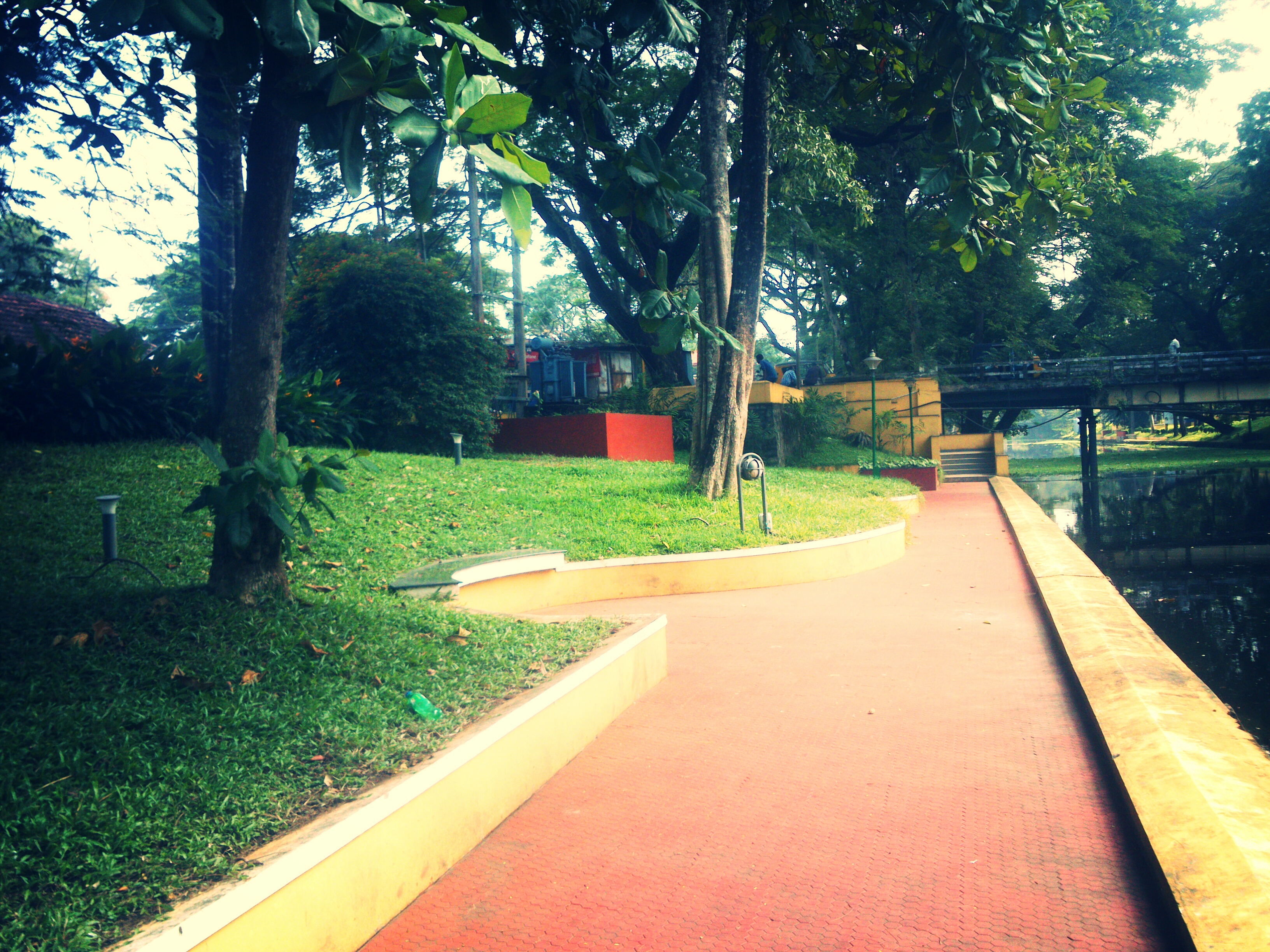 It's one of the canals of Alleppey canal network